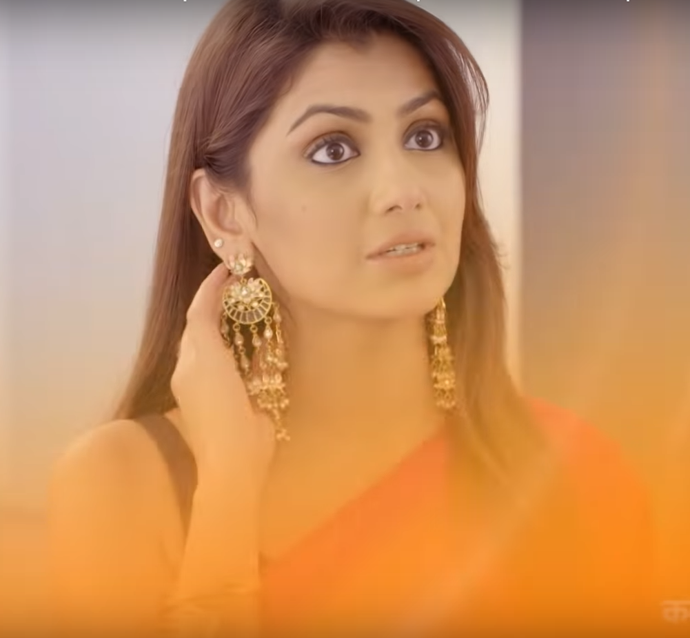 Sriti Jha snapshot